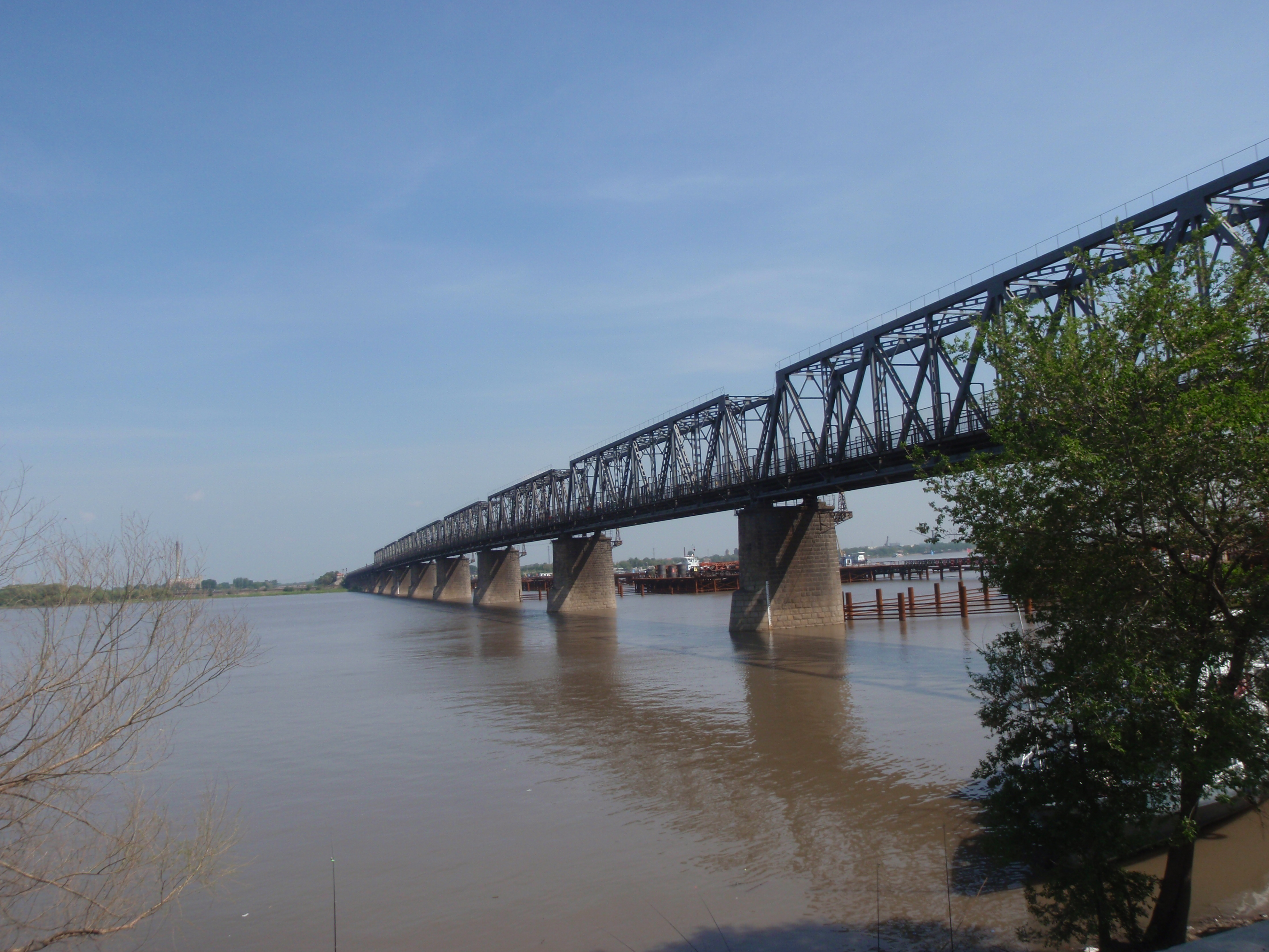 Binzhou Railway Bridge on Songhuajiang River, Harbin, Heilongjiang, China.